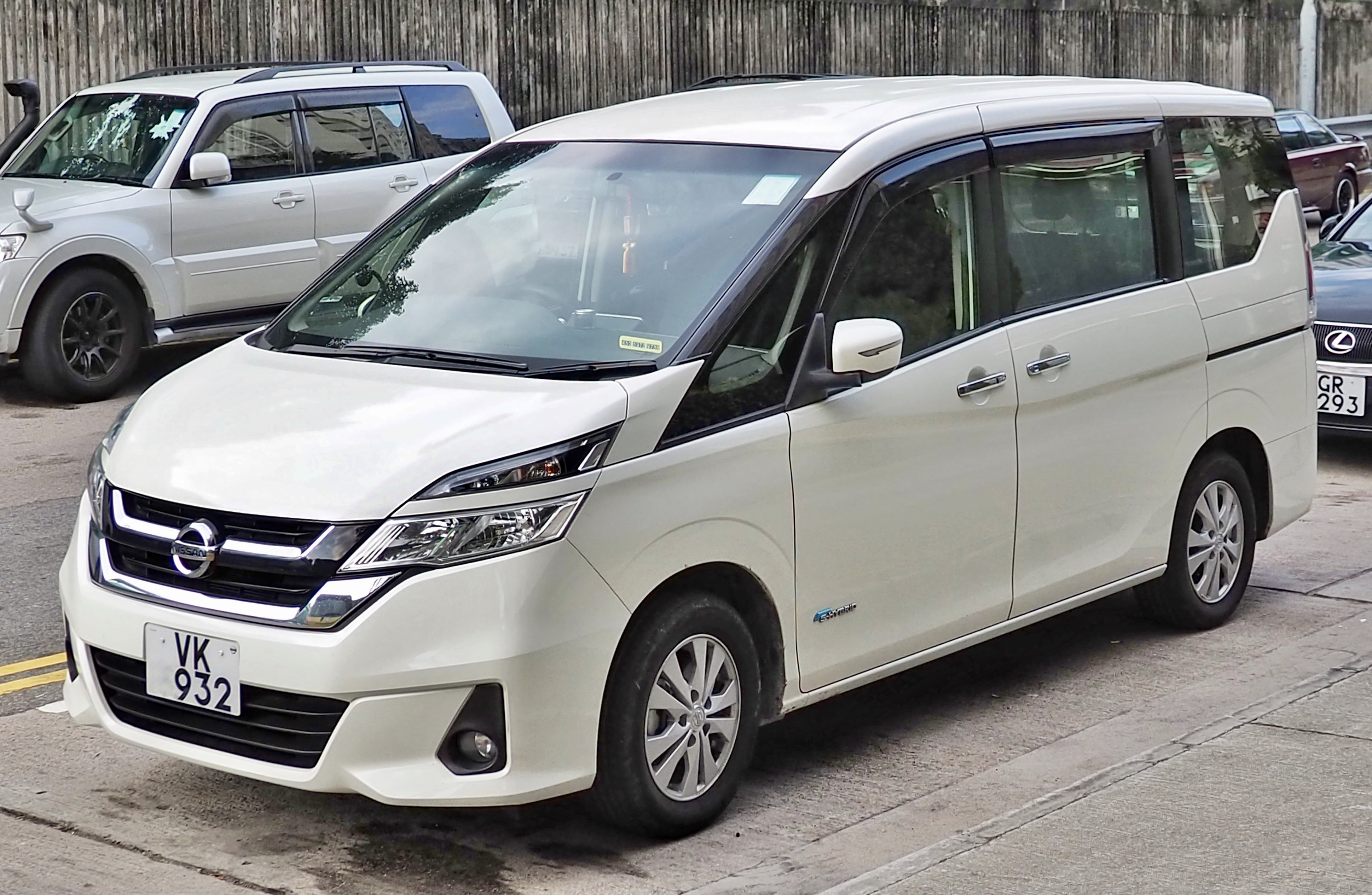 A 2016 Nissan Serena taken in Ma On Shan, New Territories, Hong Kong